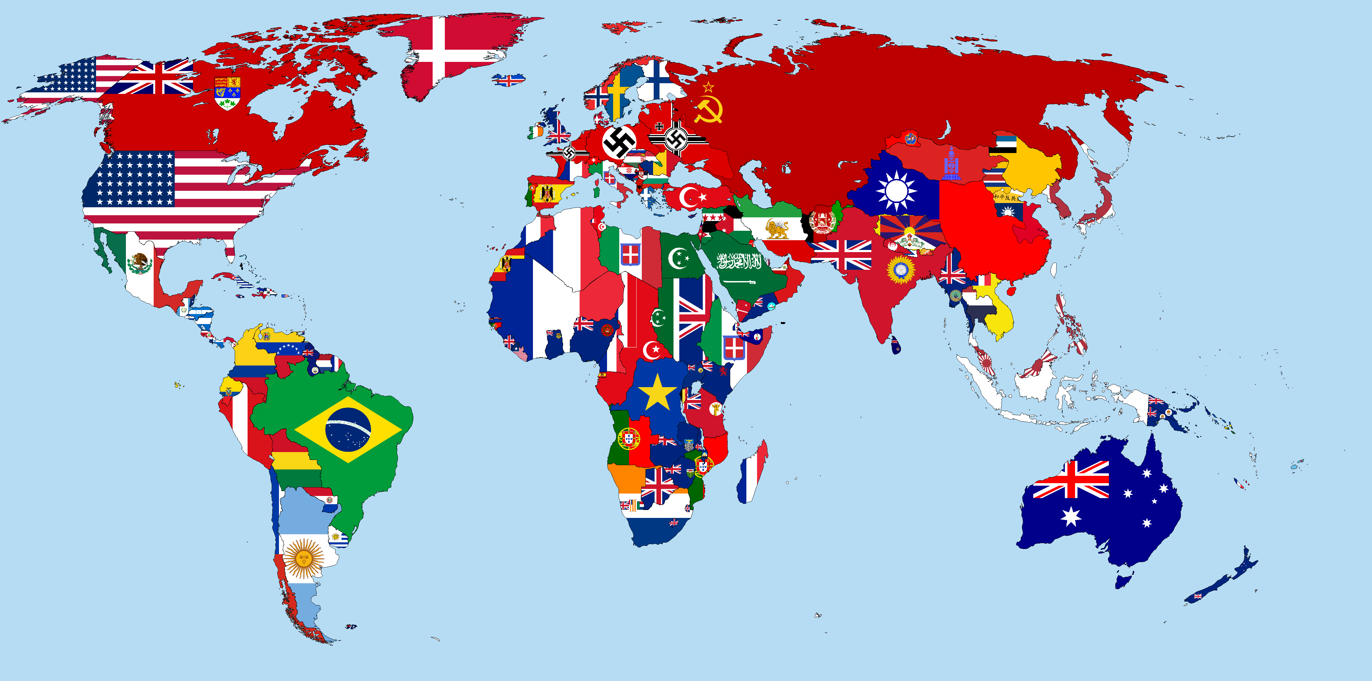 Edited from the flag map of 1938 (by NSassin). Some is incomplete, and feel free to correct any mistakes. Flag maps of the world for historical use 1789 · 1900 · 1908 · 1914 · 1930 · 1935 · 1938 · 1942 · 1965 · 1970 · 1972 · 1974 · 1989 · 1990 · 1991 · 1992 · 1993 · 2010 · 2012 · 2013 · 2015 · 2016 · 2017 · 2018 (this template: • view • discuss )